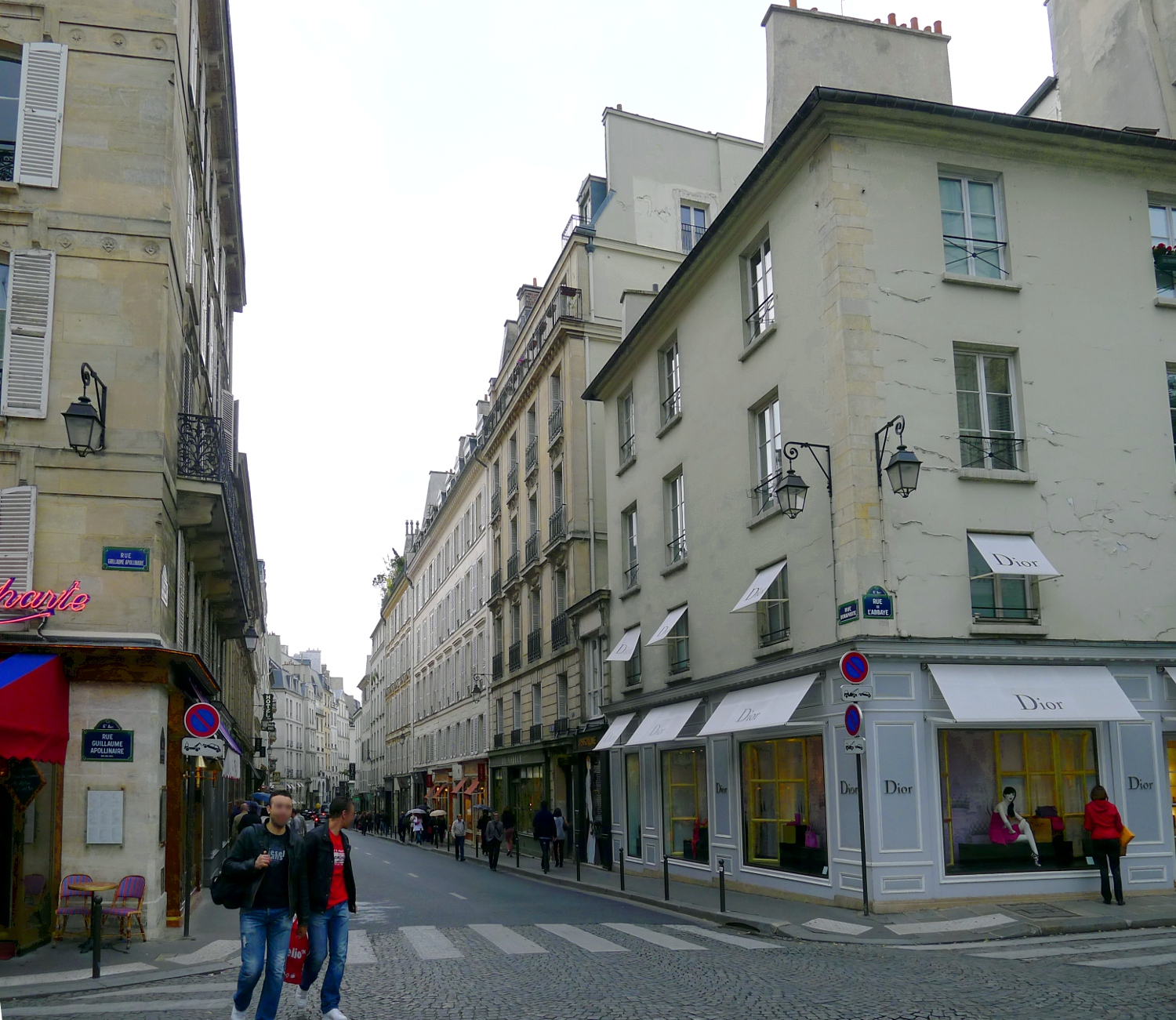 Bonaparte street - Paris